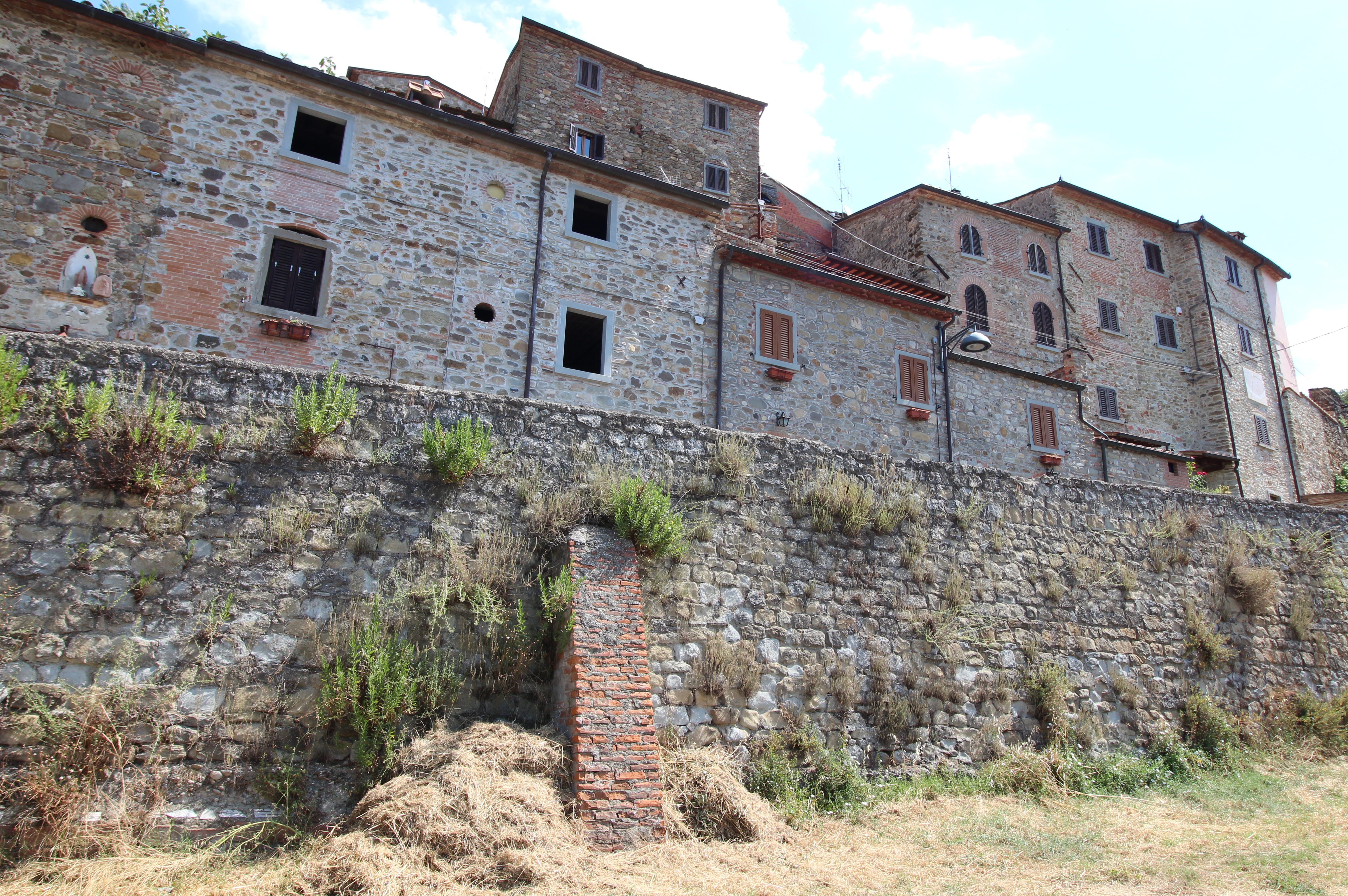 Castelluccio, hamlet of Capolona, Casentino, Province of Arezzo, Tuscany, Italy